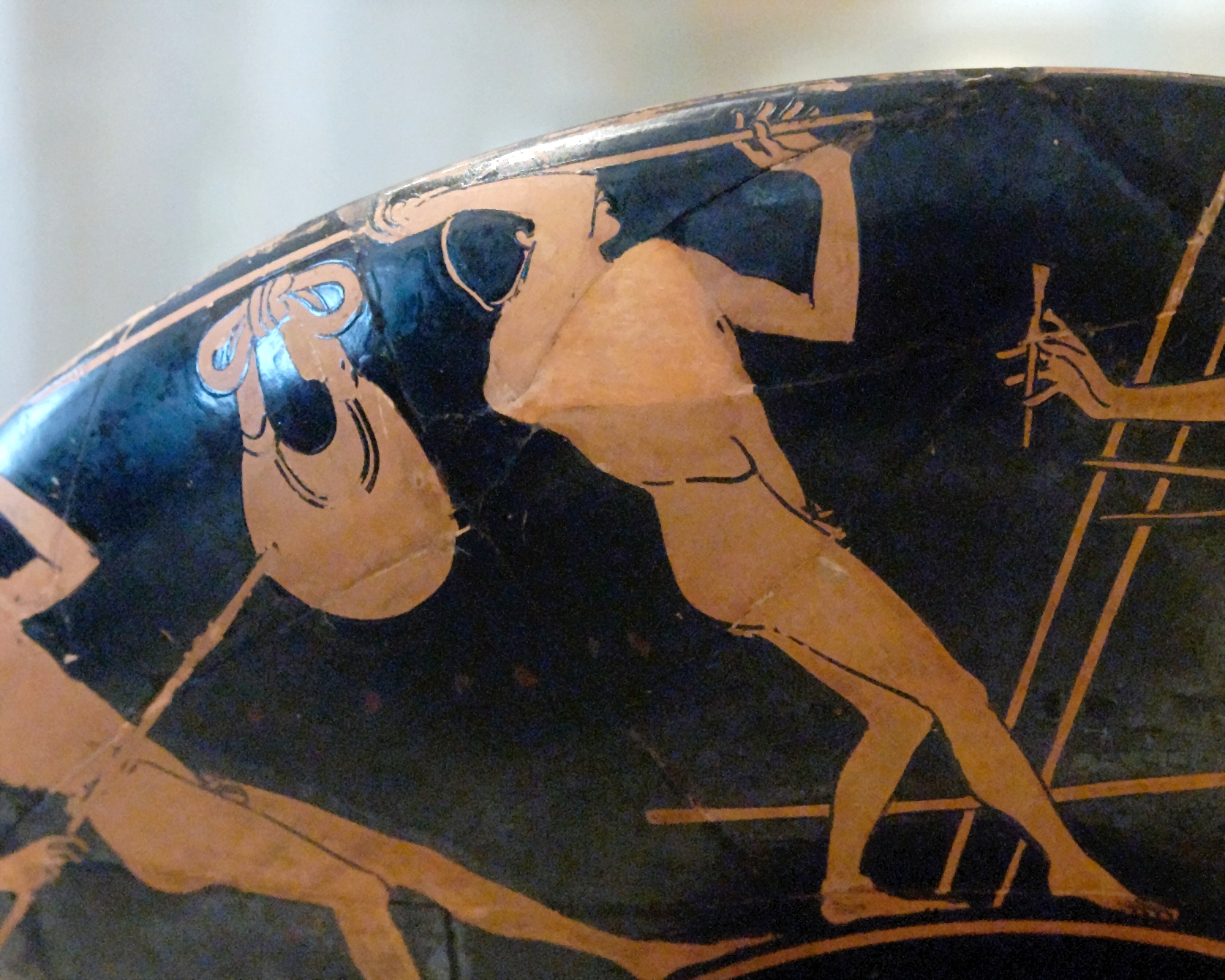 Athlete throwing the javelin. Attic red-figure kylix, ca.470 BC. From Tarquinia.